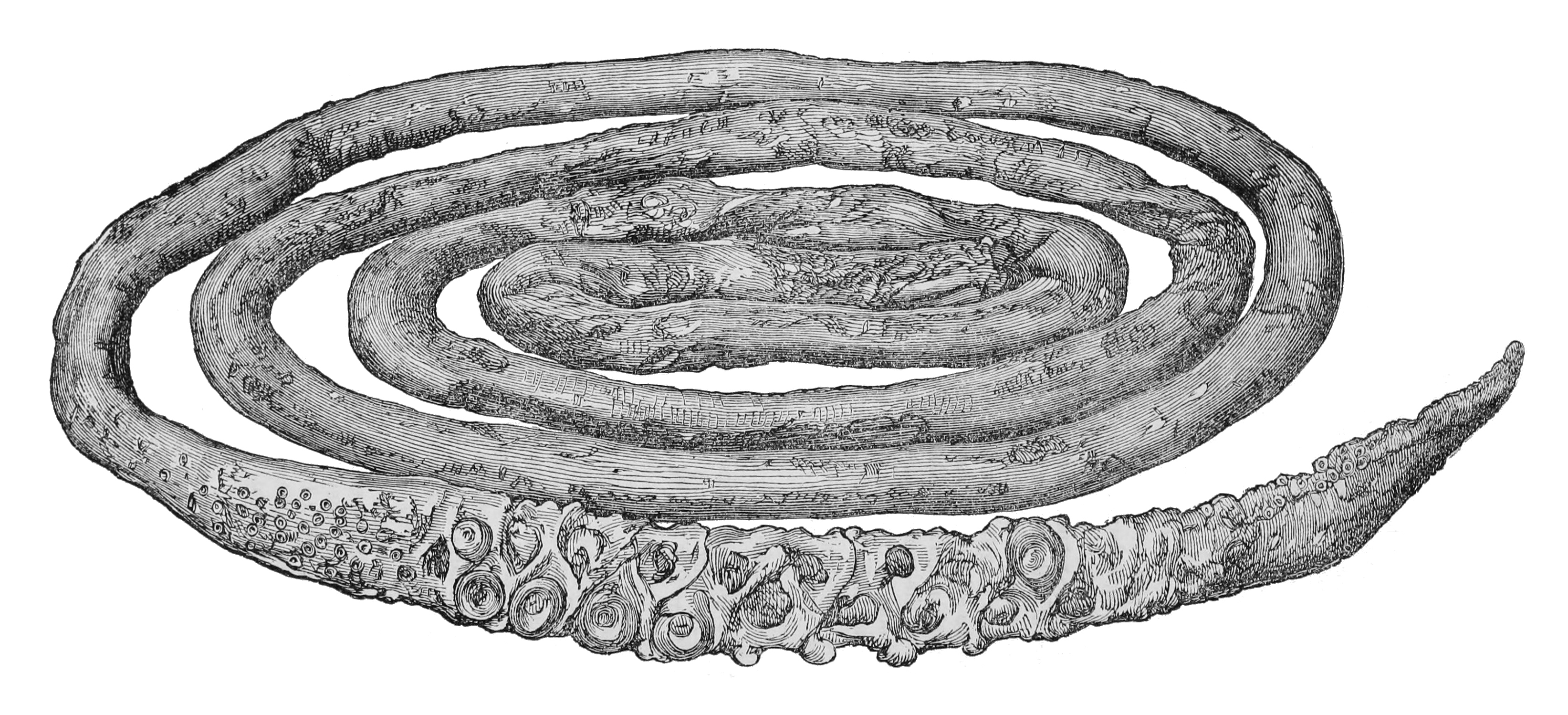 The 19-foot tentacle of a giant squid (Architeuthis sp.), hacked off a living animal on 26 October 1873